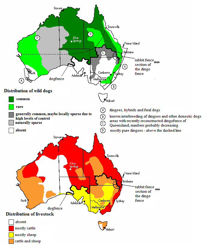 a map of the distribution of livestock and wild dogs in Australia (english version)